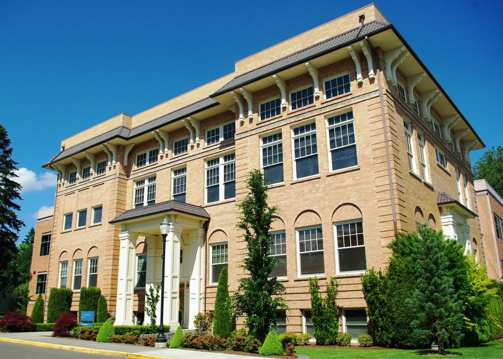 Wood-Mar Hall at George Fox University in Newberg, Oregon